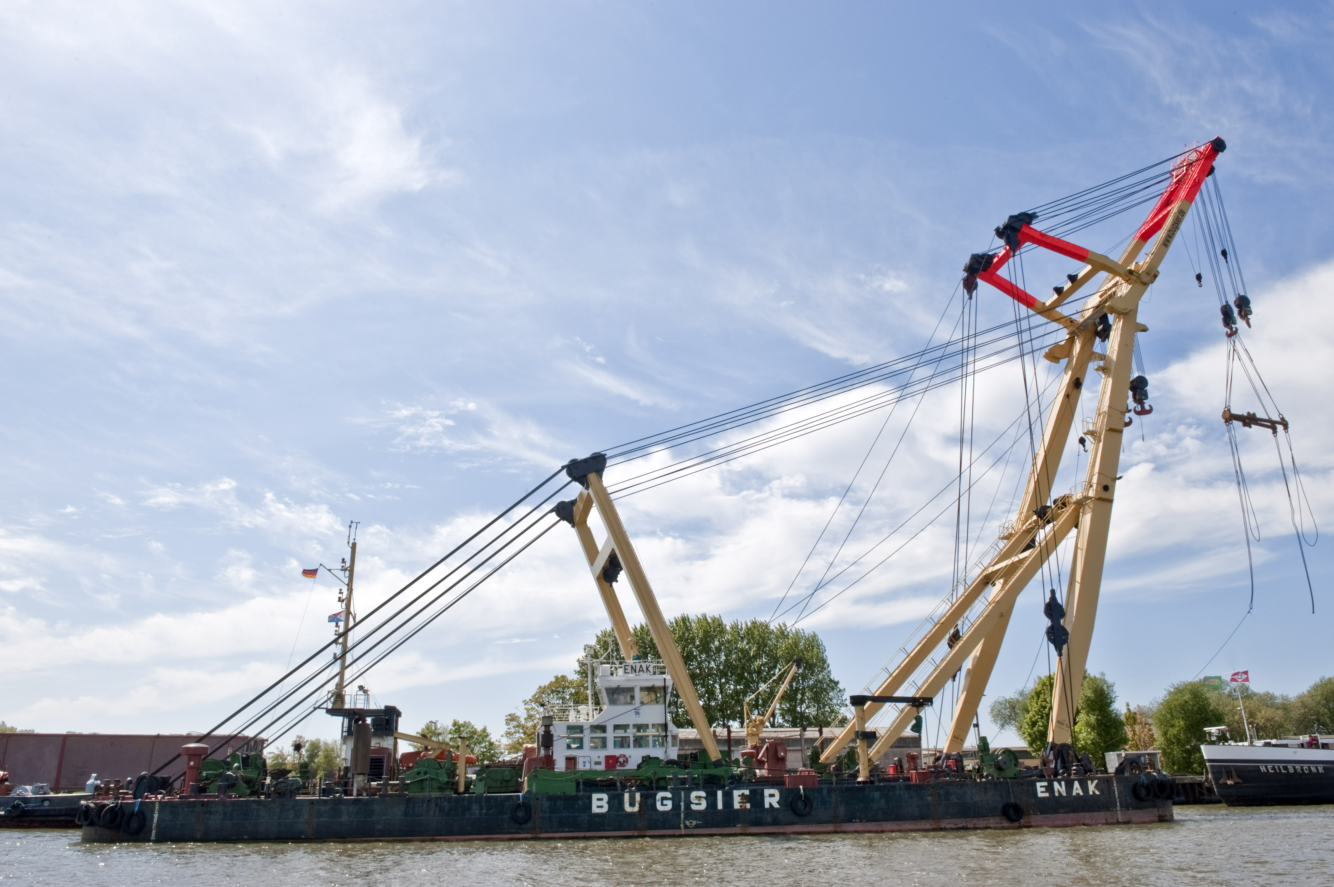 Floater crane ENAK in Bremerhaven harbour